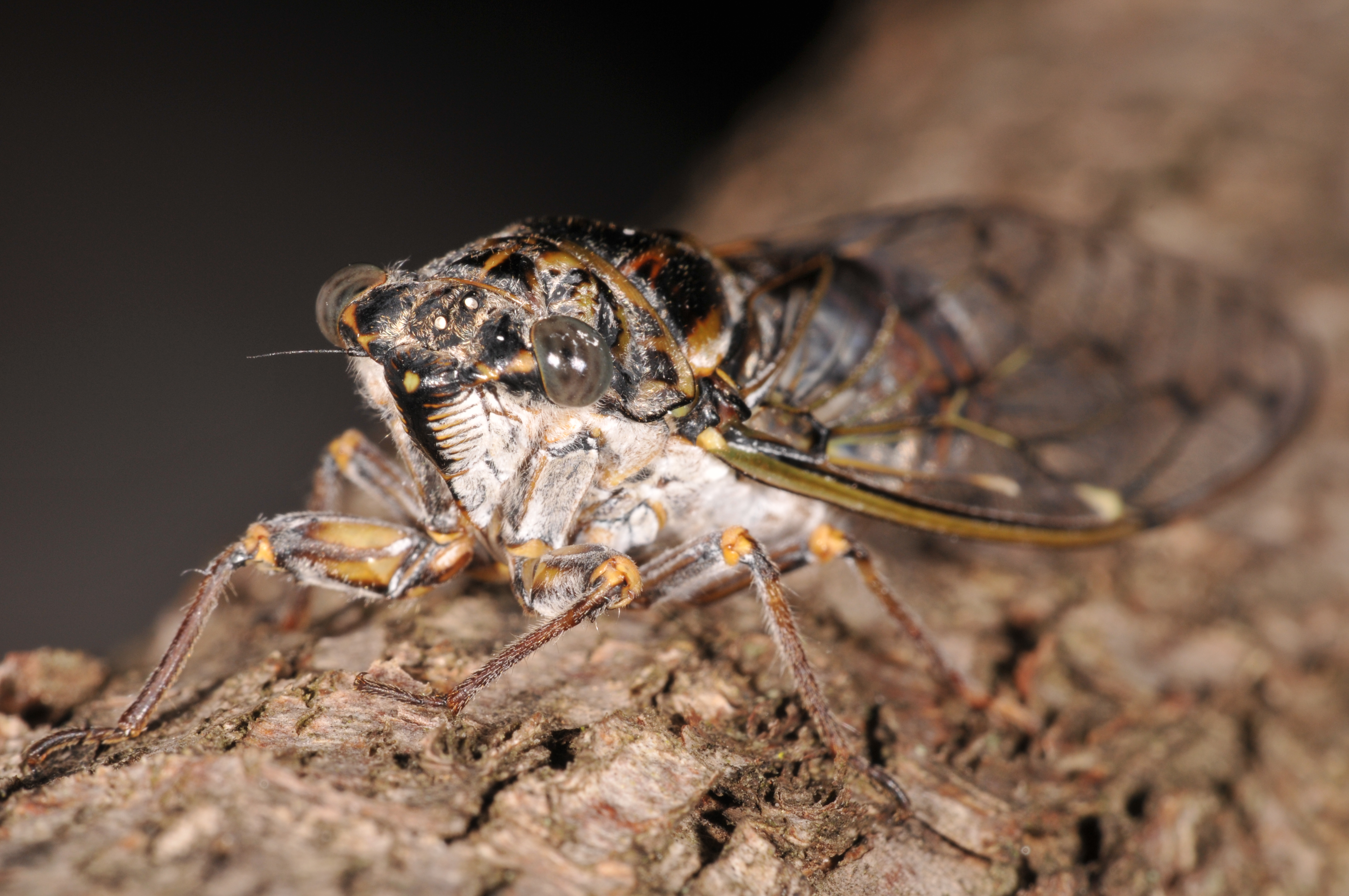 Cicada orni, Croatia, Istria, Brseč 15 km south Lovran, 45°10`23,80``N 14°13`37,25``E